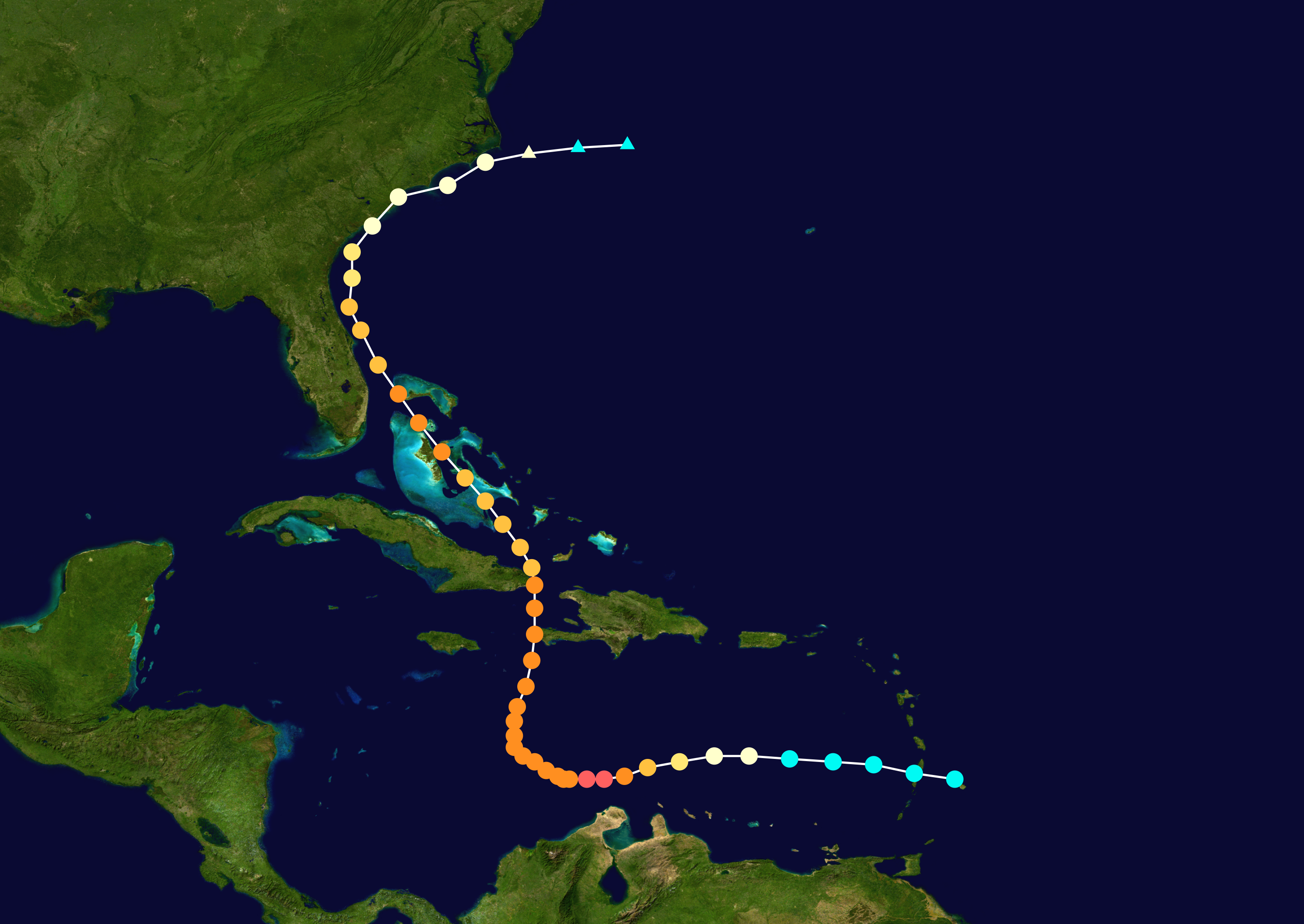 Track map of Hurricane Matthew of the 2016 Atlantic hurricane season. The points show the location of the storm at 6-hour intervals. The colour represents the storm's maximum sustained wind speeds as classified in the Saffir–Simpson scale (see below), and the shape of the data points represent the nature of the storm, according to the legend below. Saffir–Simpson scale Tropical depression≤38 mph≤62 km/h Category 3111–129 mph178–208 km/h Tropical storm39–73 mph63–118 km/h Category 4130–156 mph209–251 km/h Category 174–95 mph119–153 km/h Category 5≥157 mph≥252 km/h Category 296–110 mph154–177 km/h Unknown Storm type Tropical cyclone Subtropical cyclone Extratropical cyclone / Remnant low / Tropical disturbance / Monsoon depression